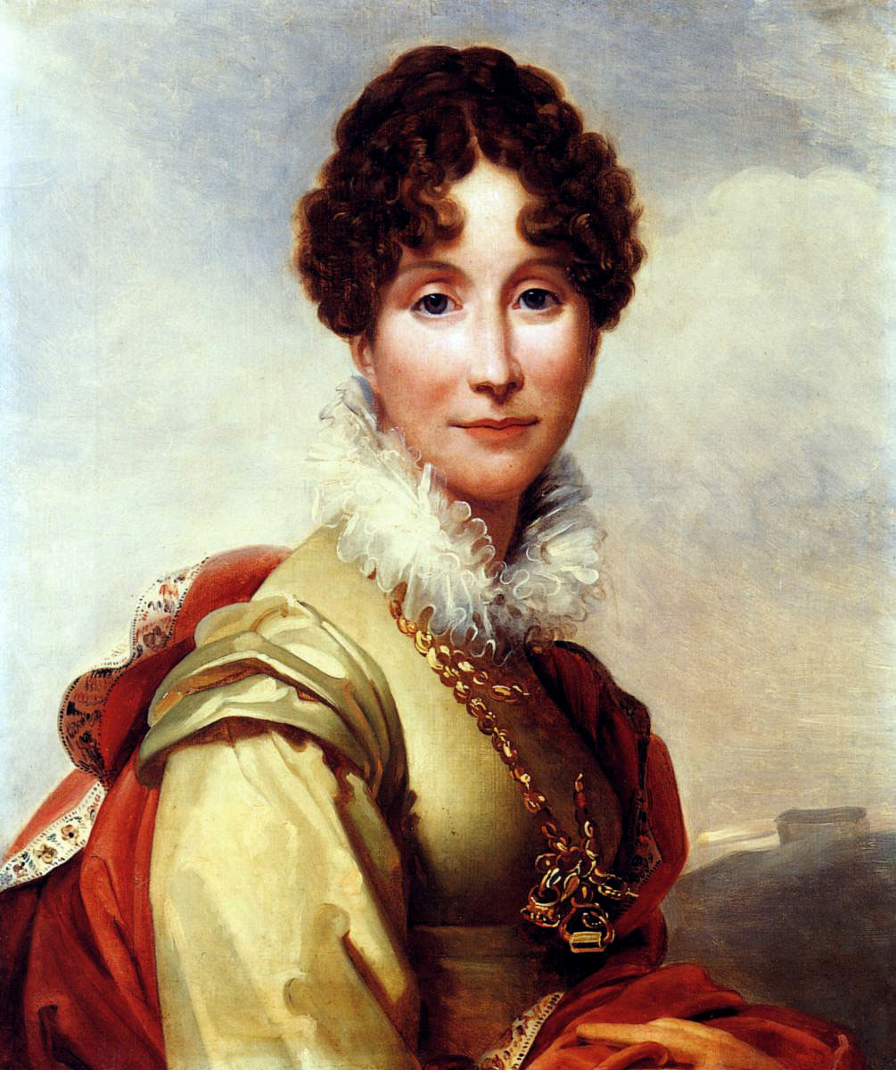 Madame Adélaïde d'Orléans in a copy of the portrait by François Gérard. The original painting was hanging in the Tuileries Palace and was destroyed during the revolution of 1848 and the collapse of the July Monarchy.